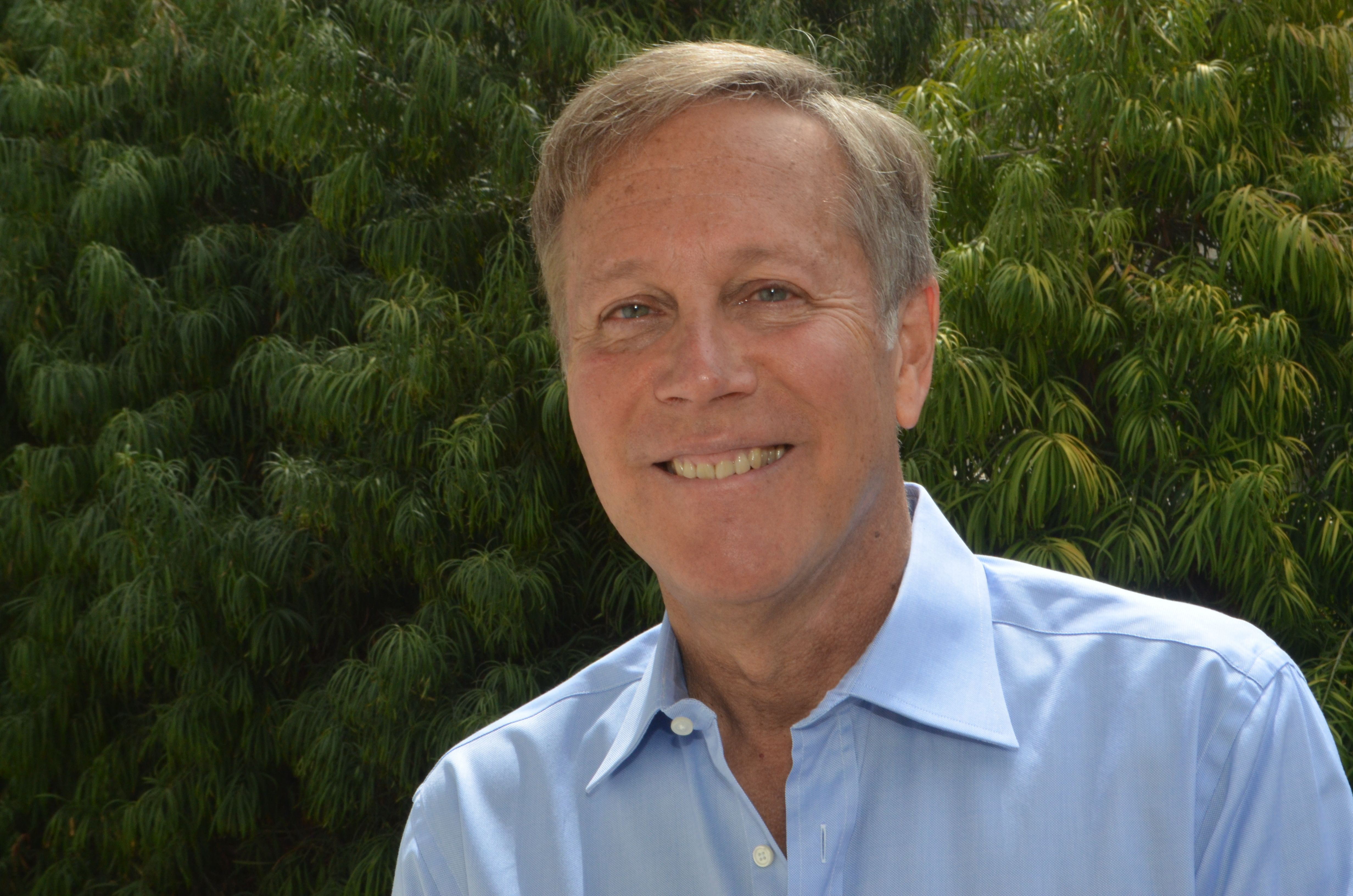 Photo of Dana Gioia by Star Black